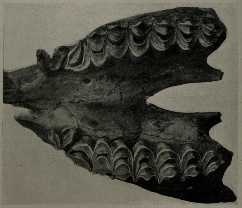 Fossil maxilla of Hemiauchenia cf. paradoxa Gervaigh et Ameghino, an extinct llama from Tarija, southern Bolivia.